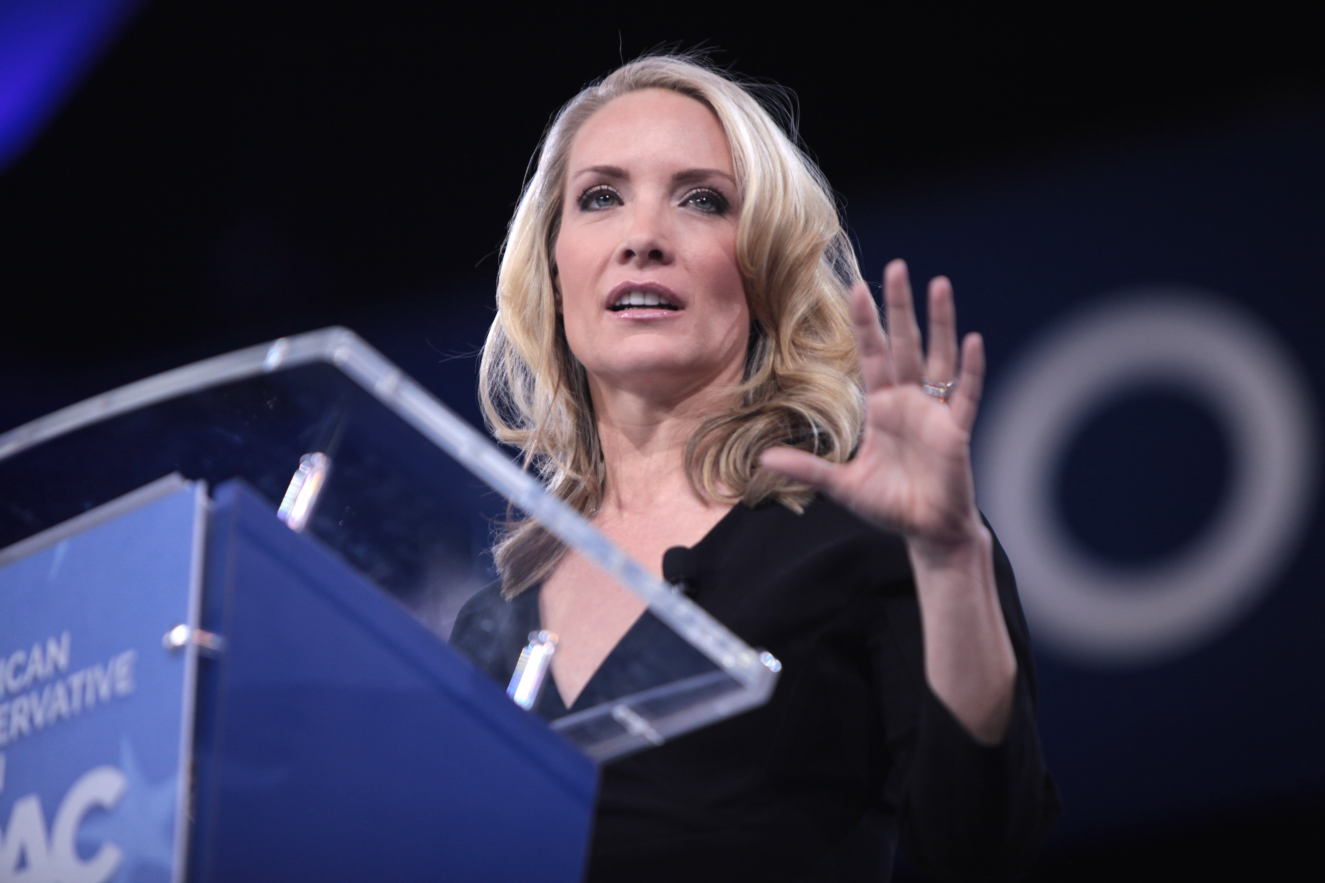 Dana Perino speaking at CPAC in 2016